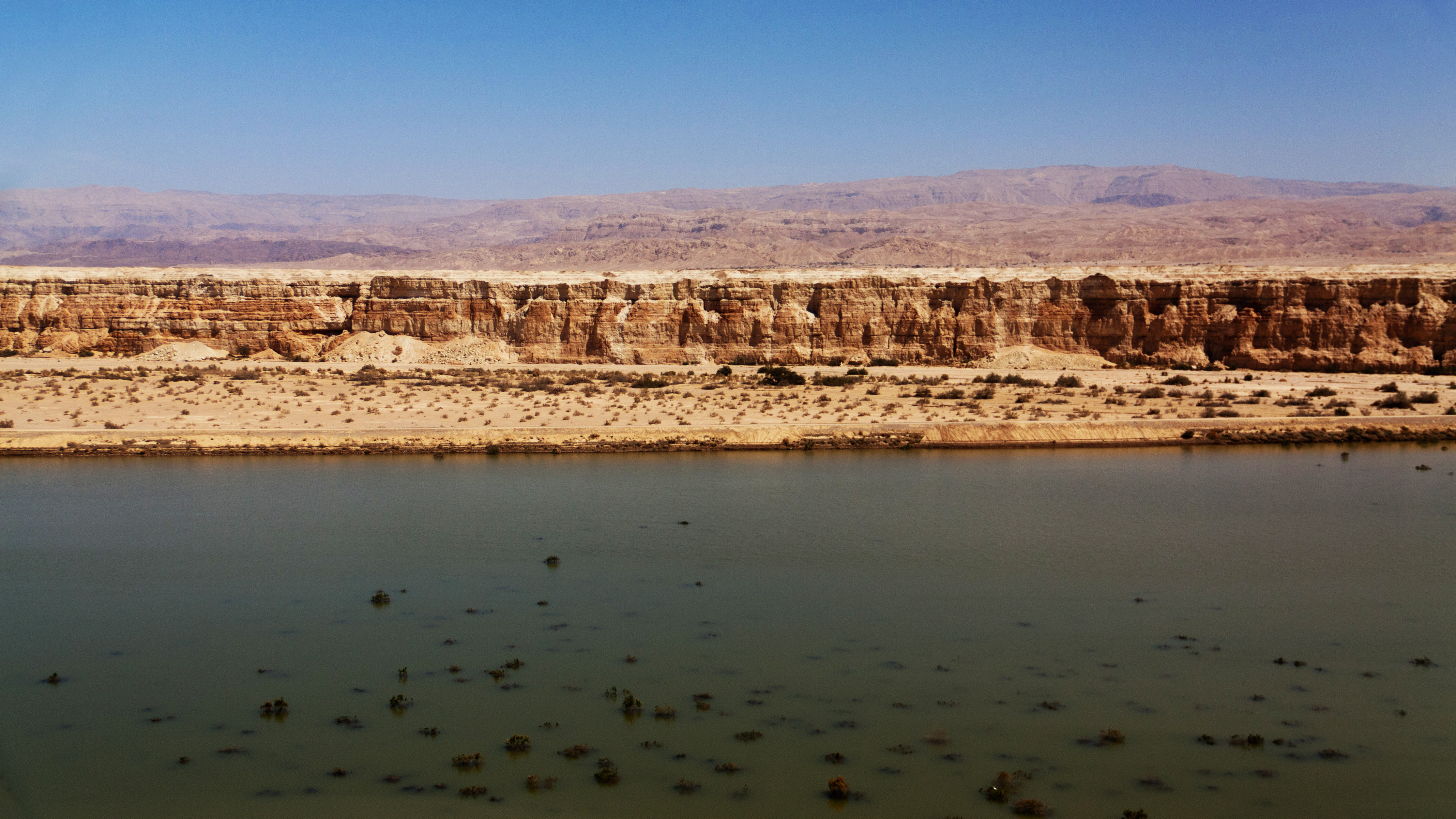 Idan Reservoir